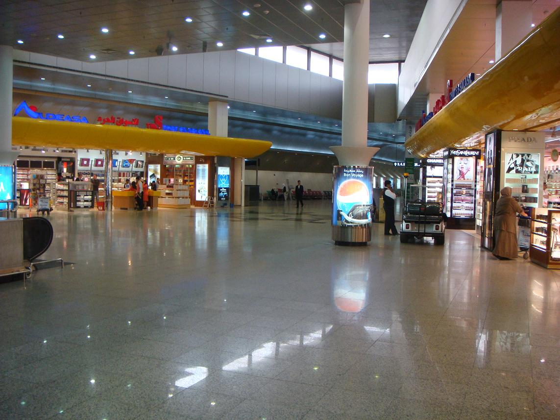 The duty free area at Kuwait International Airport.